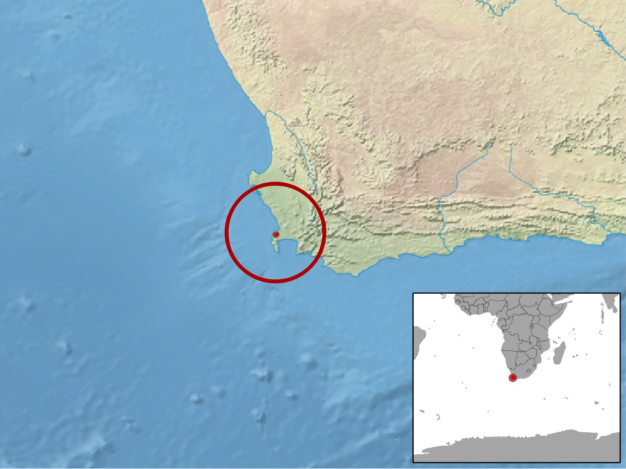 geographic distribution of Heleophryne rosei